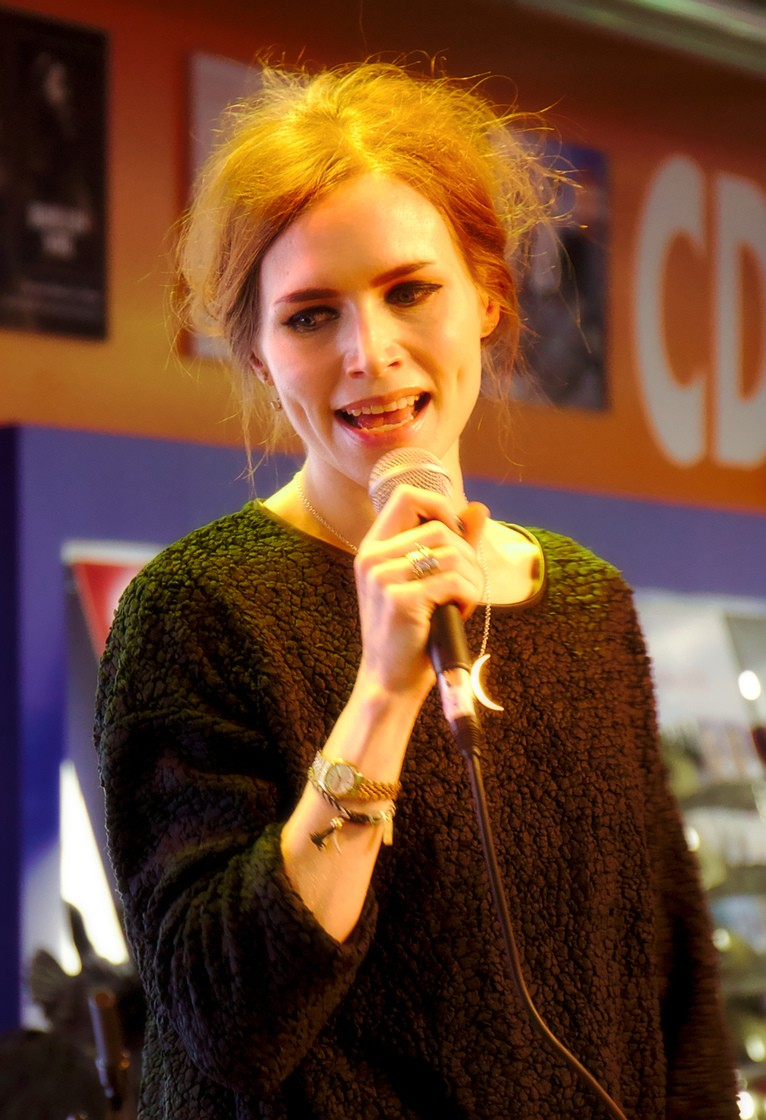 Nina Persson in Hamburg